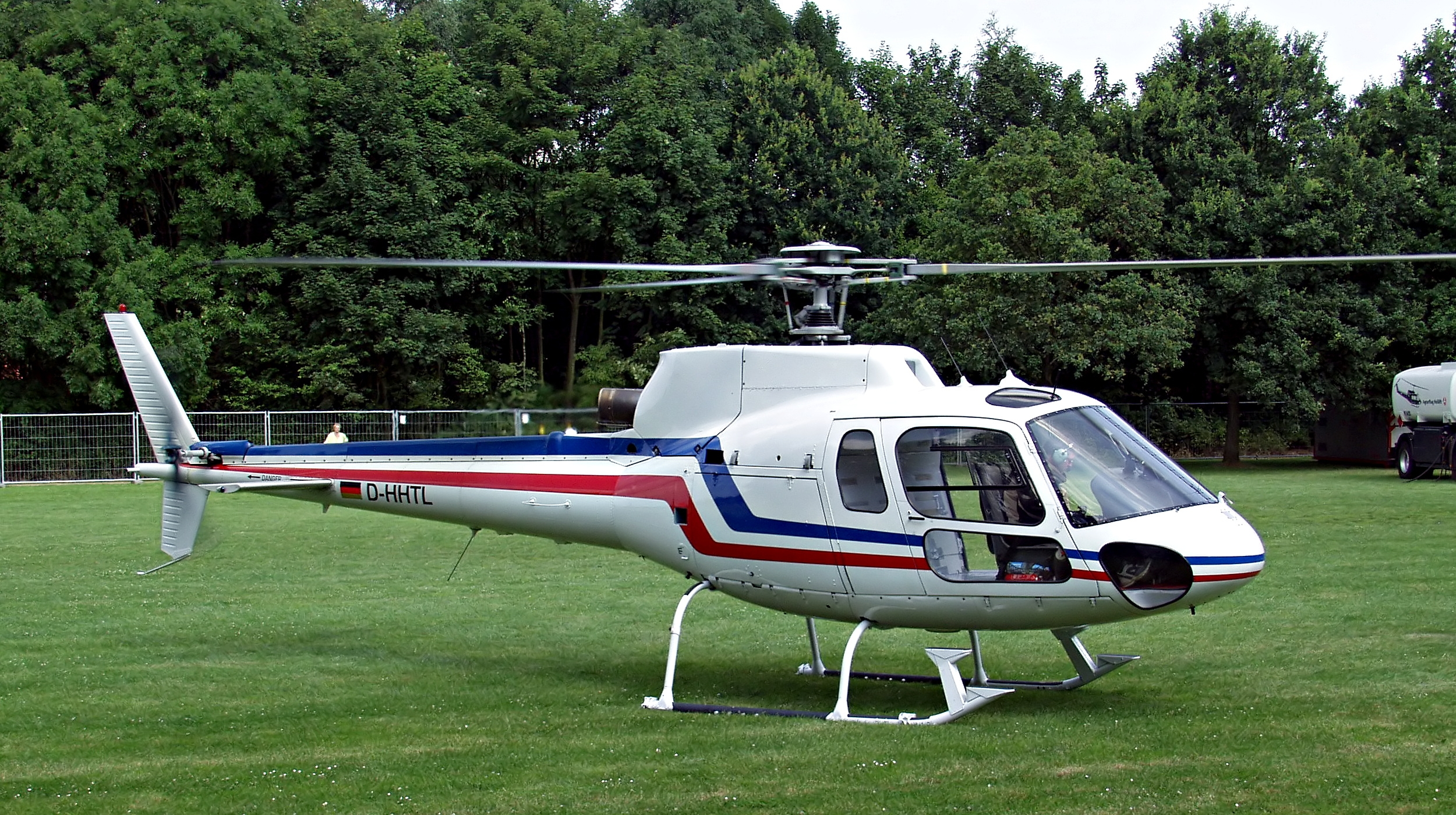 Helicopter Aerospatiale AS350BA, used for parachutists during World Games 2005, Duisburg, Germany for the parachuting-competitions.